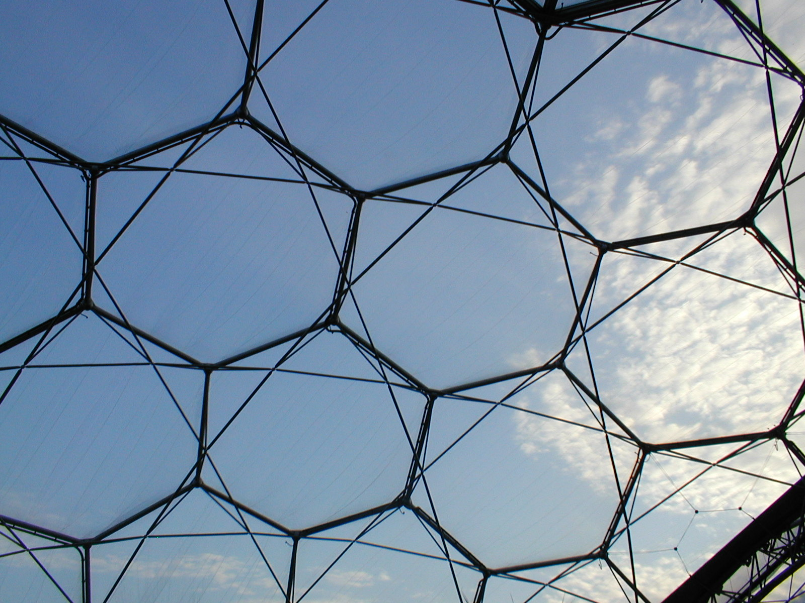 The hexangle structure looking from the inside, Eden Project